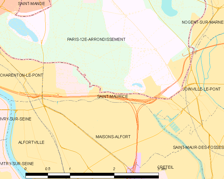 Map of French municipality Saint-Maurice